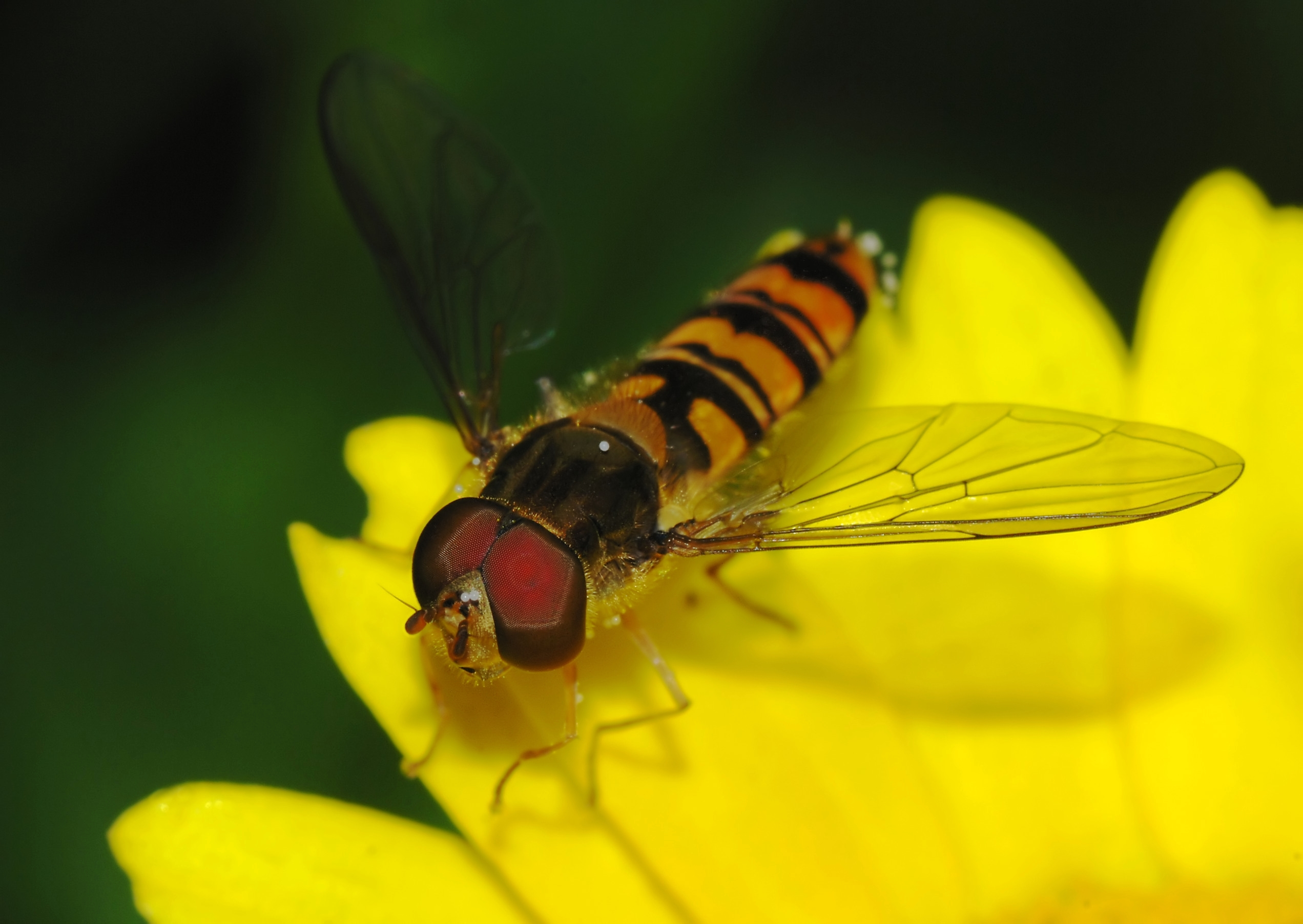 A male Episyrphus balteatus (Marmelade Fly).